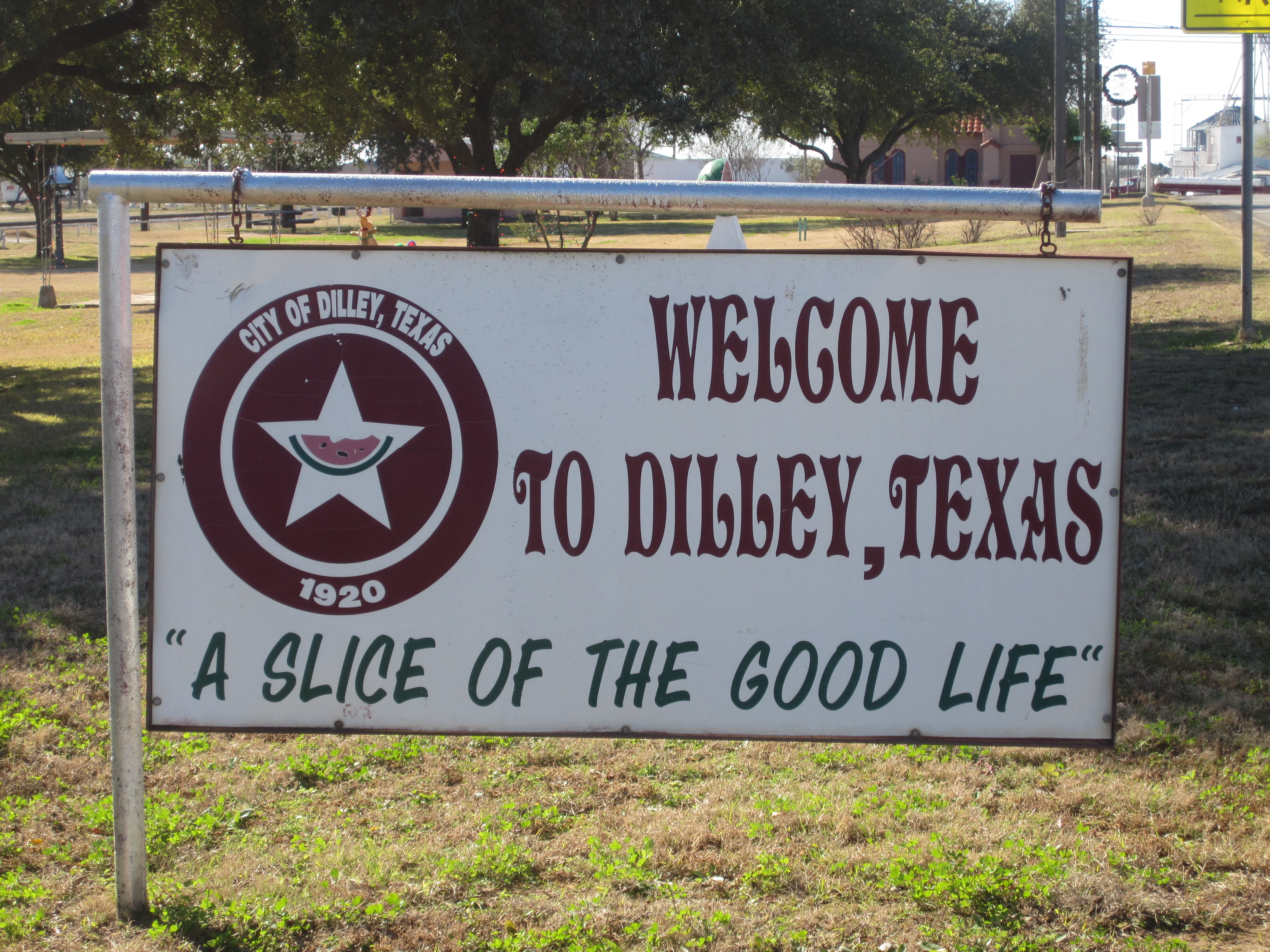 Welcome in Dilley, TX, Frio County